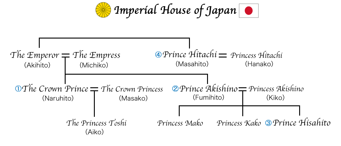 Japanese Imperial Family trees